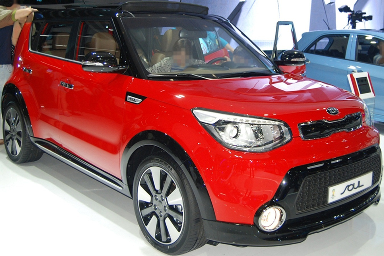 Kia All New Soul